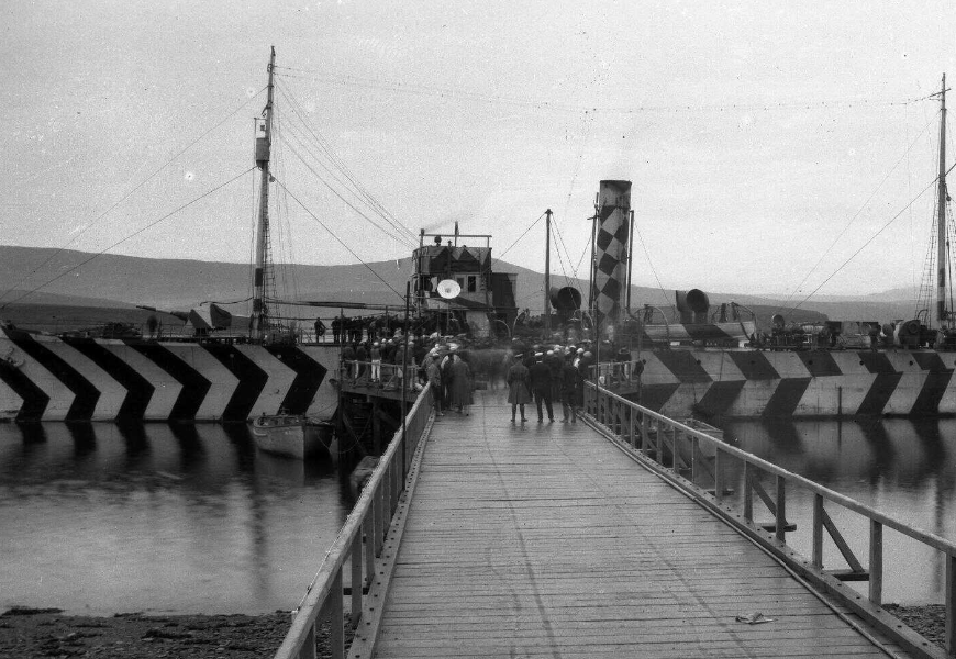 This photograph was taken by Ralph I. Gifford, an Oregon photographer, who enlisted during the World War I in the U.S. Navy, while he was stationed at Whiddy Island, Ireland. Gifford Photographic Collection, Oregon State University Special Collections & Archives Research Center.